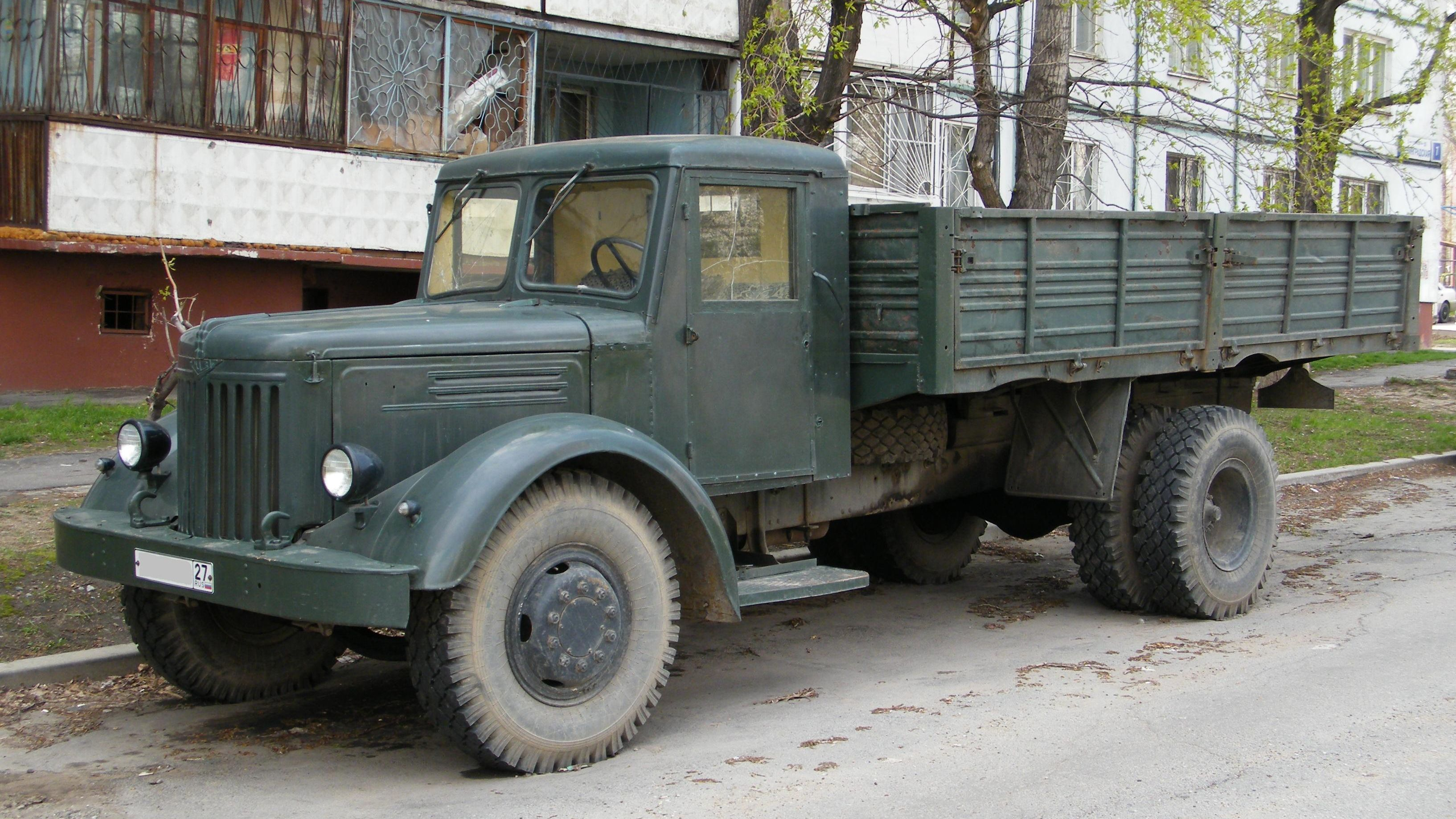 MAZ-200